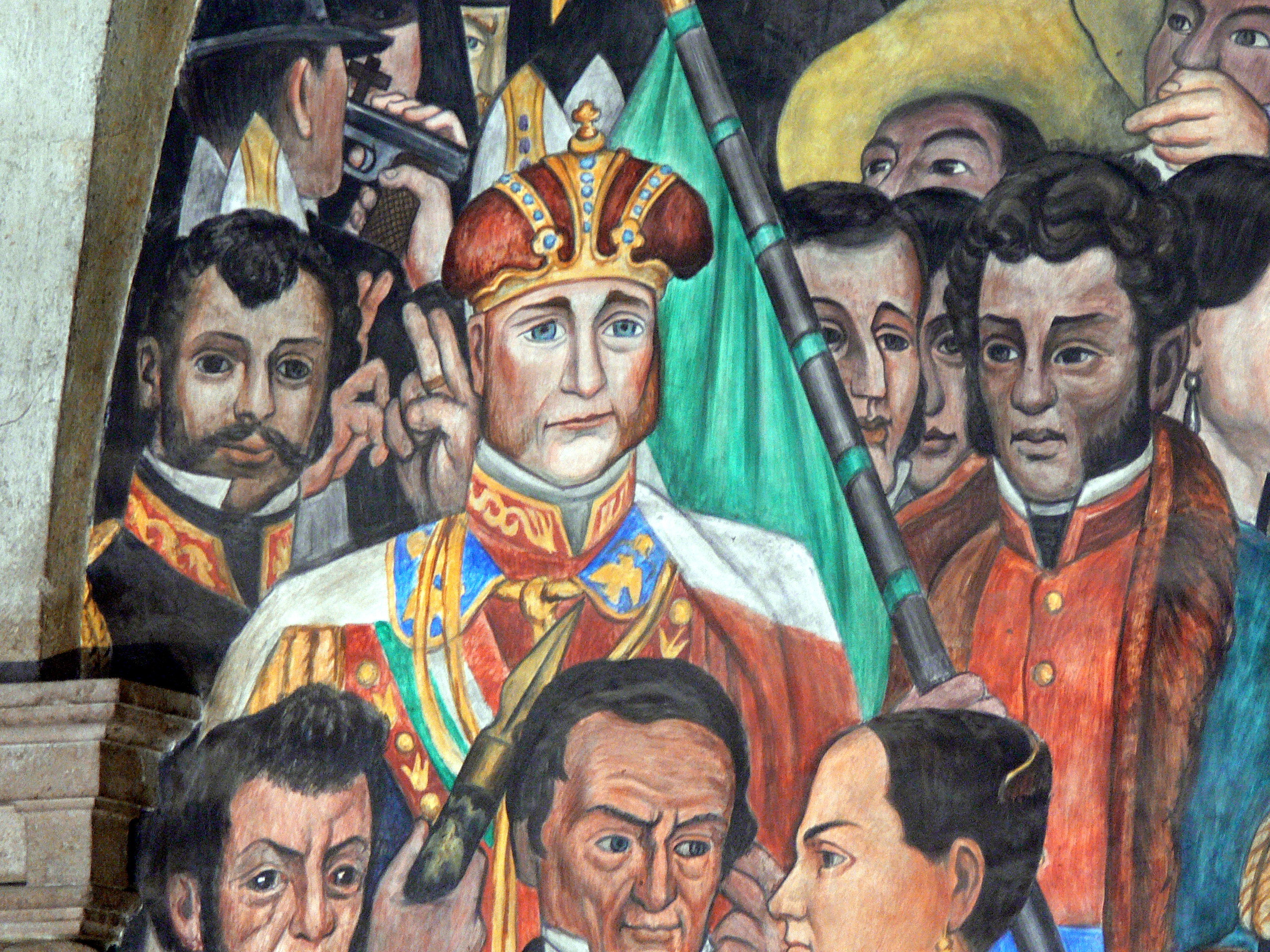 Mexico City - Palacio Nacional. Mural by Diego Rivera showing the History of Mexico: Detail showing the emperor Agustin de Iturbide